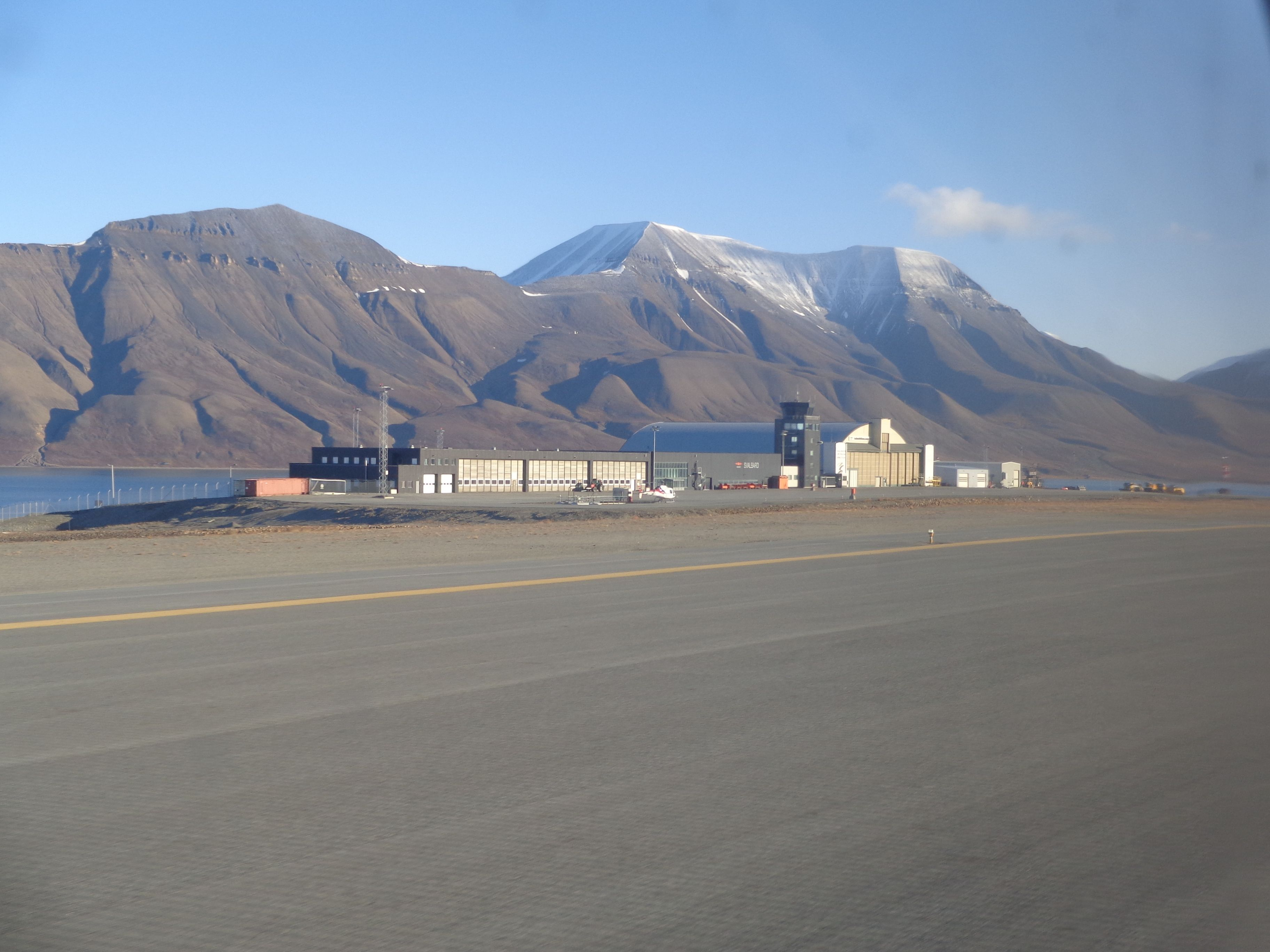 Longyearbyen airport